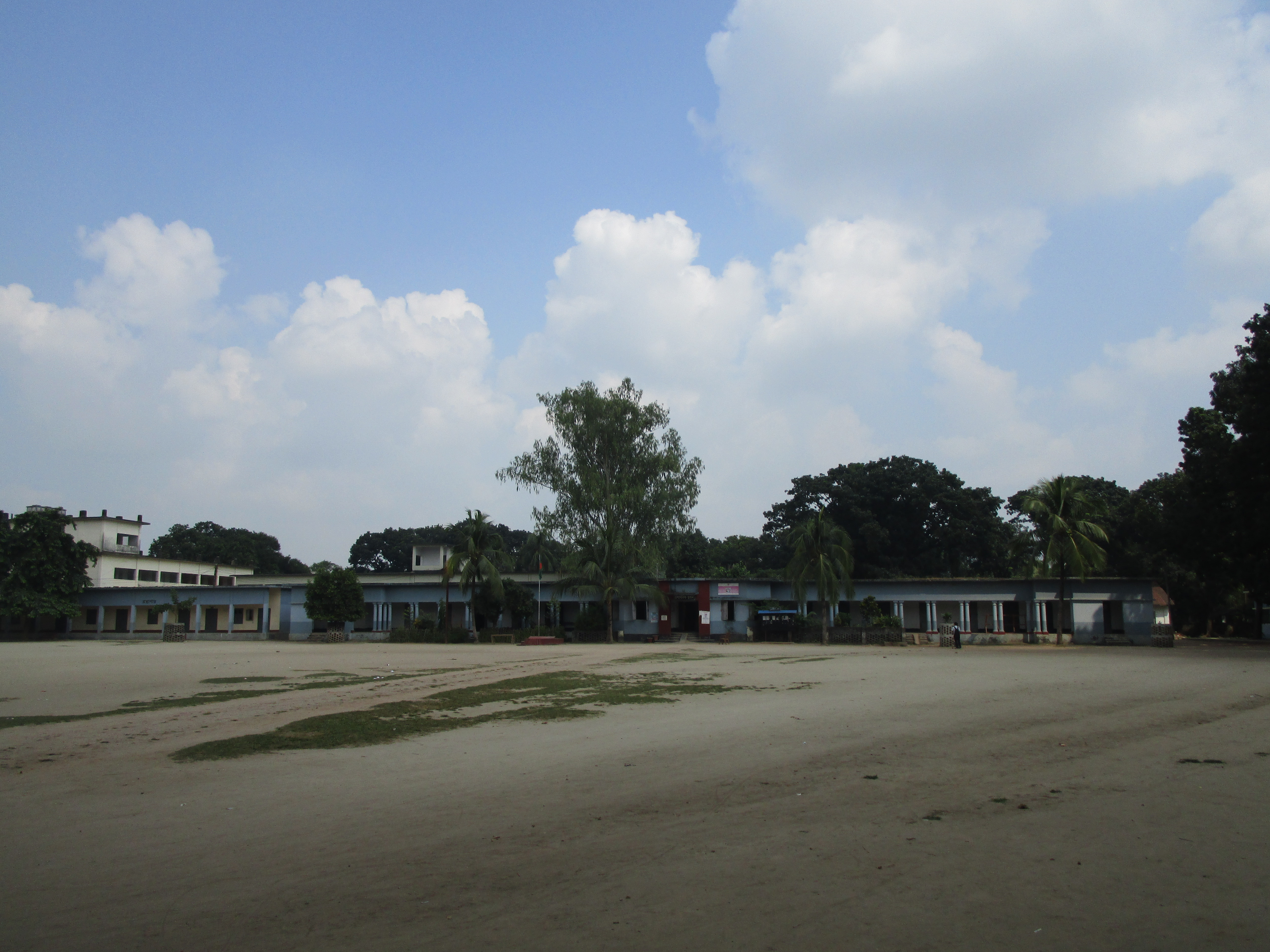 Buildings of Thakurgaon Zilla School.